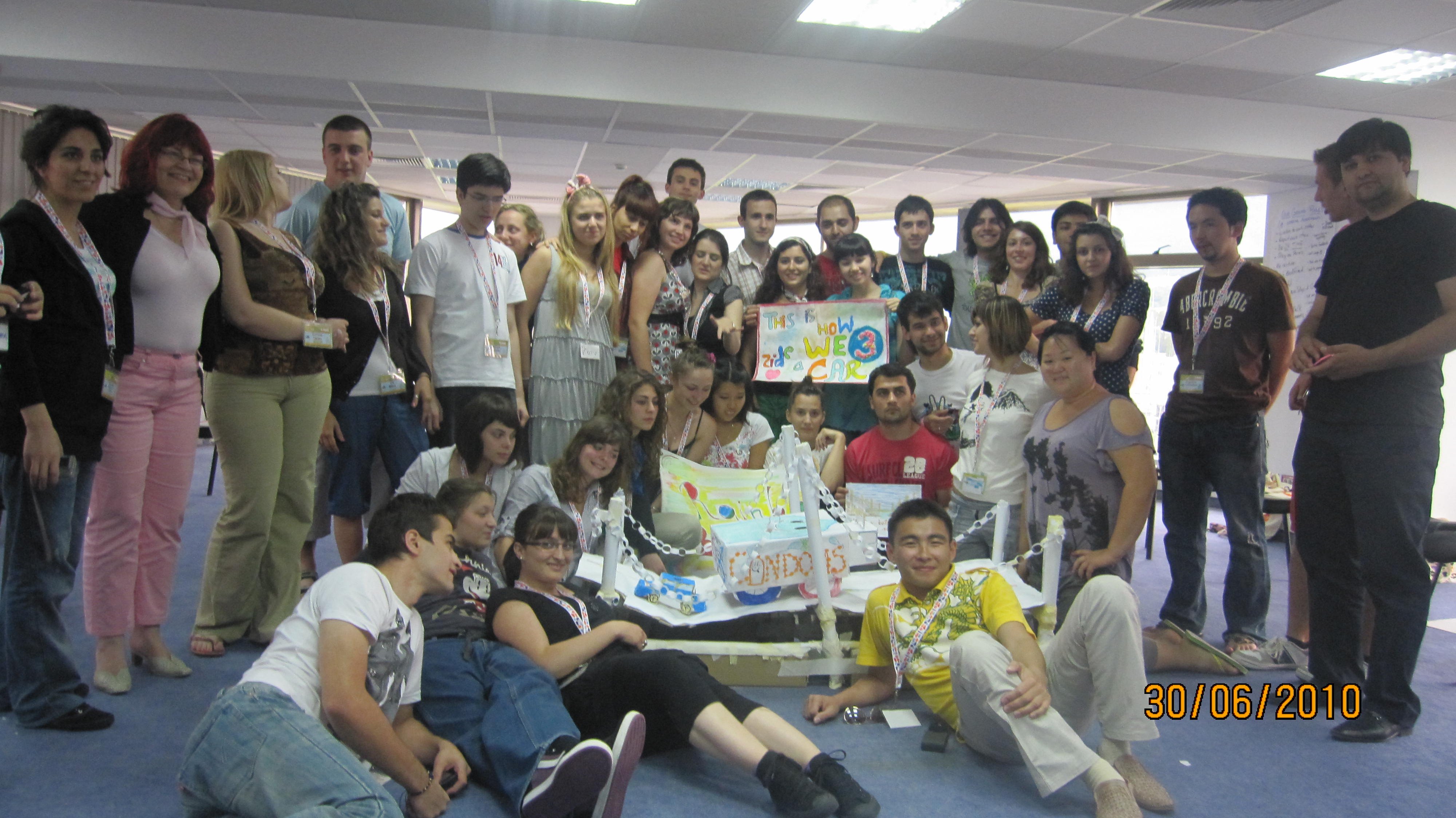 This is a photo from International Training of Trainers, which took place in Sofia,Bulgaria.